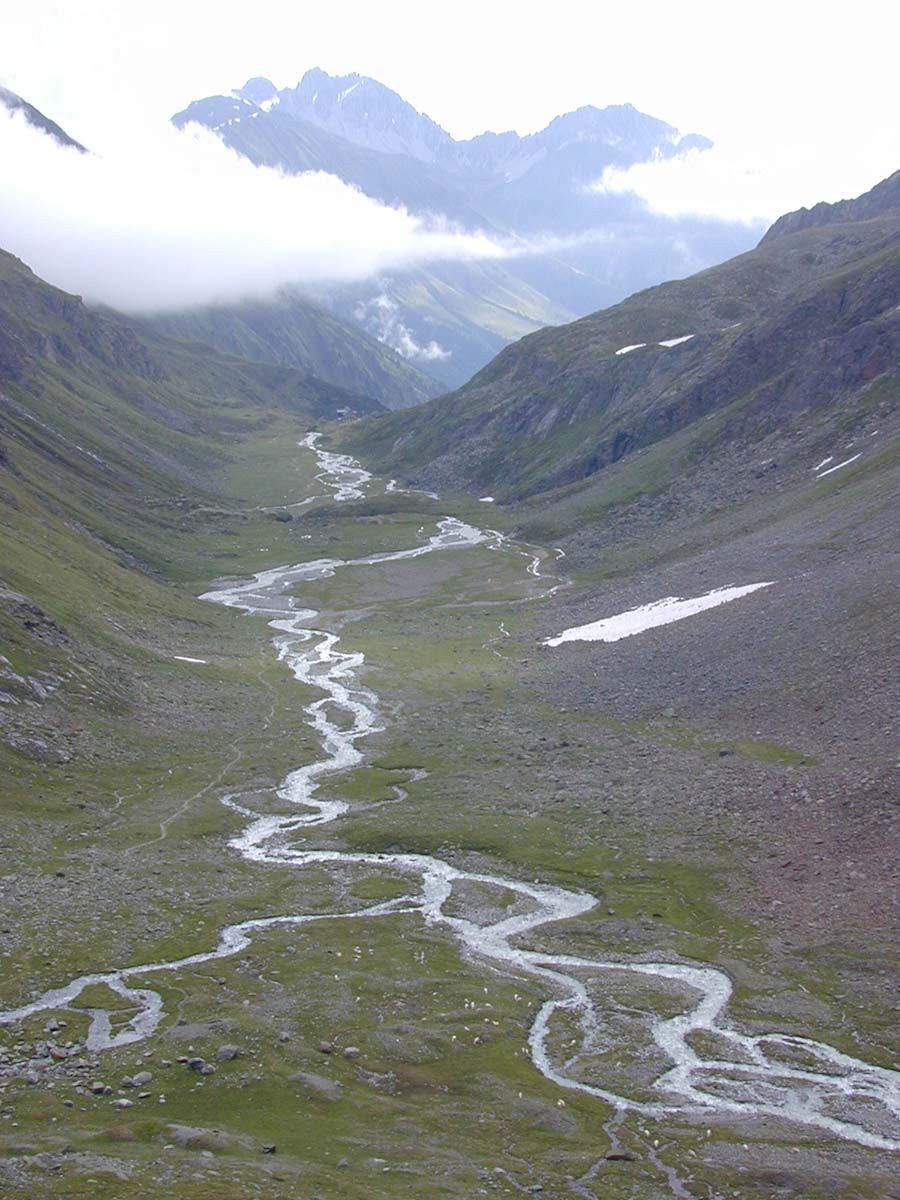 Looking down (from somewhere on the path to the Rinnenspitze) the hanging valley of the Alpeiner Bach to the Franz Senn Hut just visible at the end.